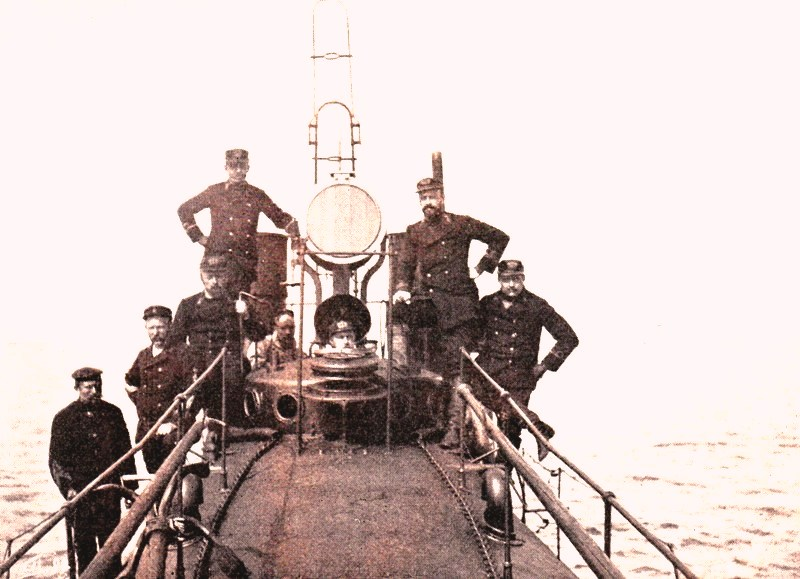 Manschappen op een torpedoboot